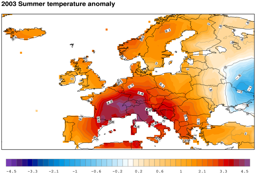 2003 europe summer temperature anomaly with respect to 1971-2000 climatology. Data source: CRU TS3